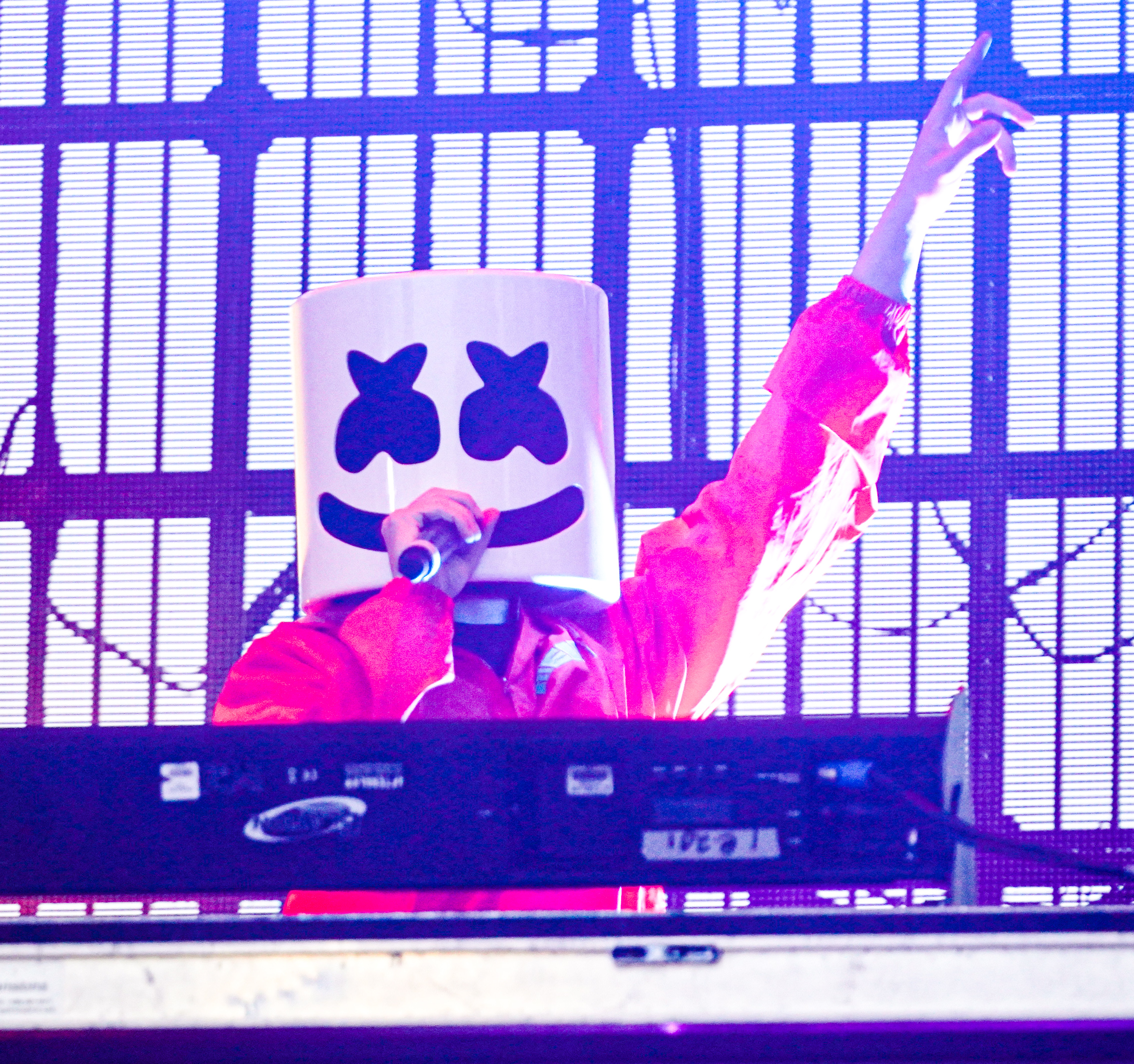 With headliners Marshmello Zara Larsson Todrick Hall Shea Diamond Calum Scott Nina West Big Dipper Pride2019 #CapitalPrideDC #CapitalTransPride #ShhhOUT #PastPresentAndProud